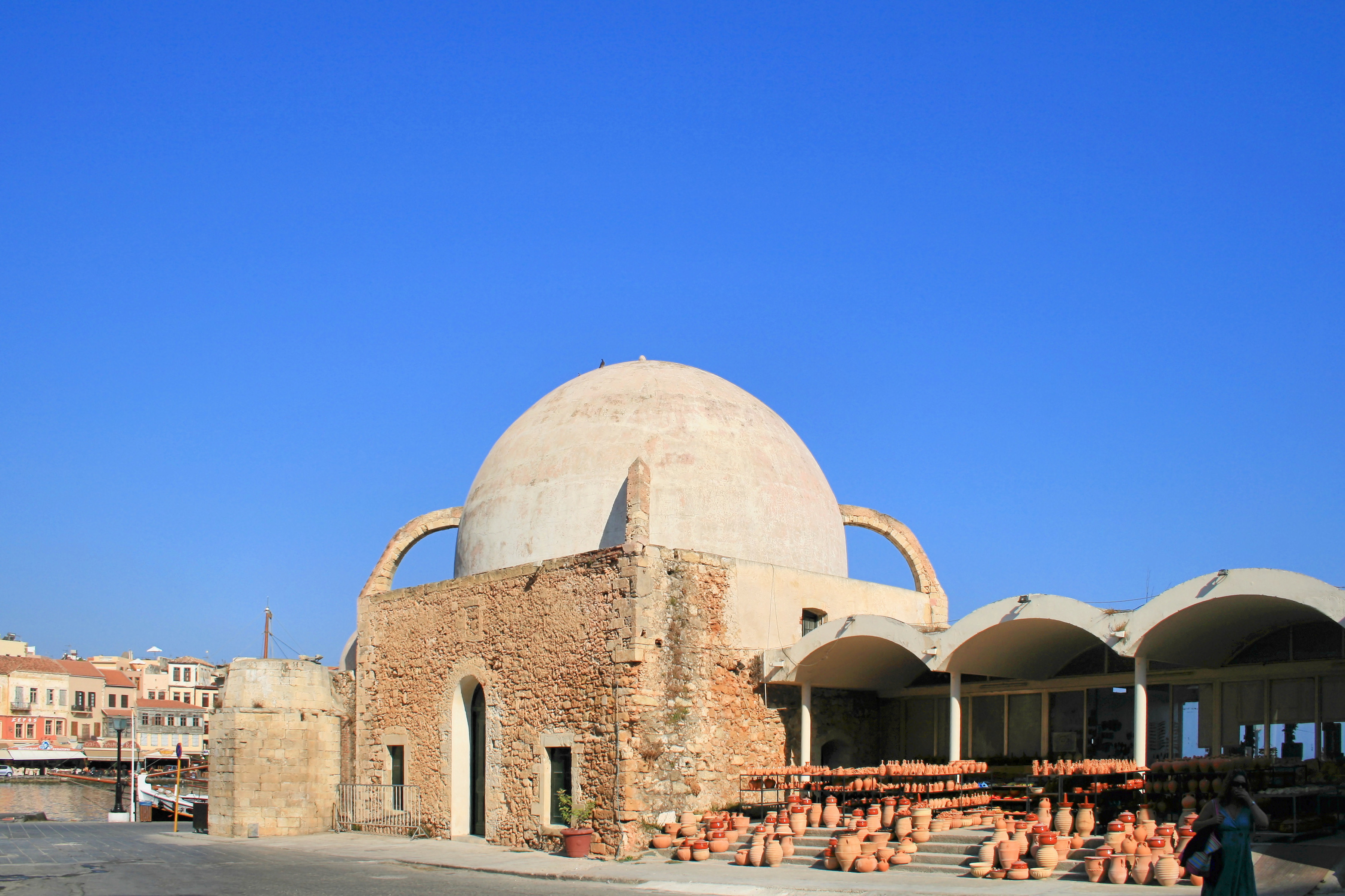 Chania on the island of Crete - The Mosque of the Janissaries